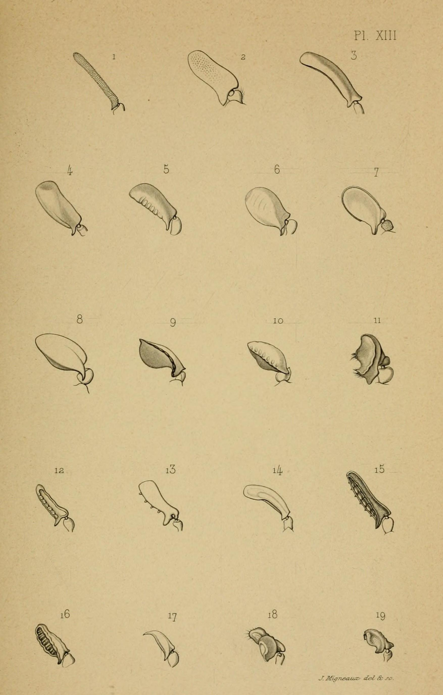 Variety of shape of antennae in Paussus species: 1) Paussus cylindricornis 2) P. signatipennis 3) P. Raffrayi 4) P. manicanus 5) P. lineatus 6) P. arduus 7) P. propinquus 8) P. Humboldi 9) P. rugiceps 10) P. rusticus 11) P. Marshalli 12) P. concinnus 13) P. barberi 14) P.garmari 15) P. Klugii 16) P. viator 17) P. cultratus 18) P. Linnei 19) P. Burmeisteri